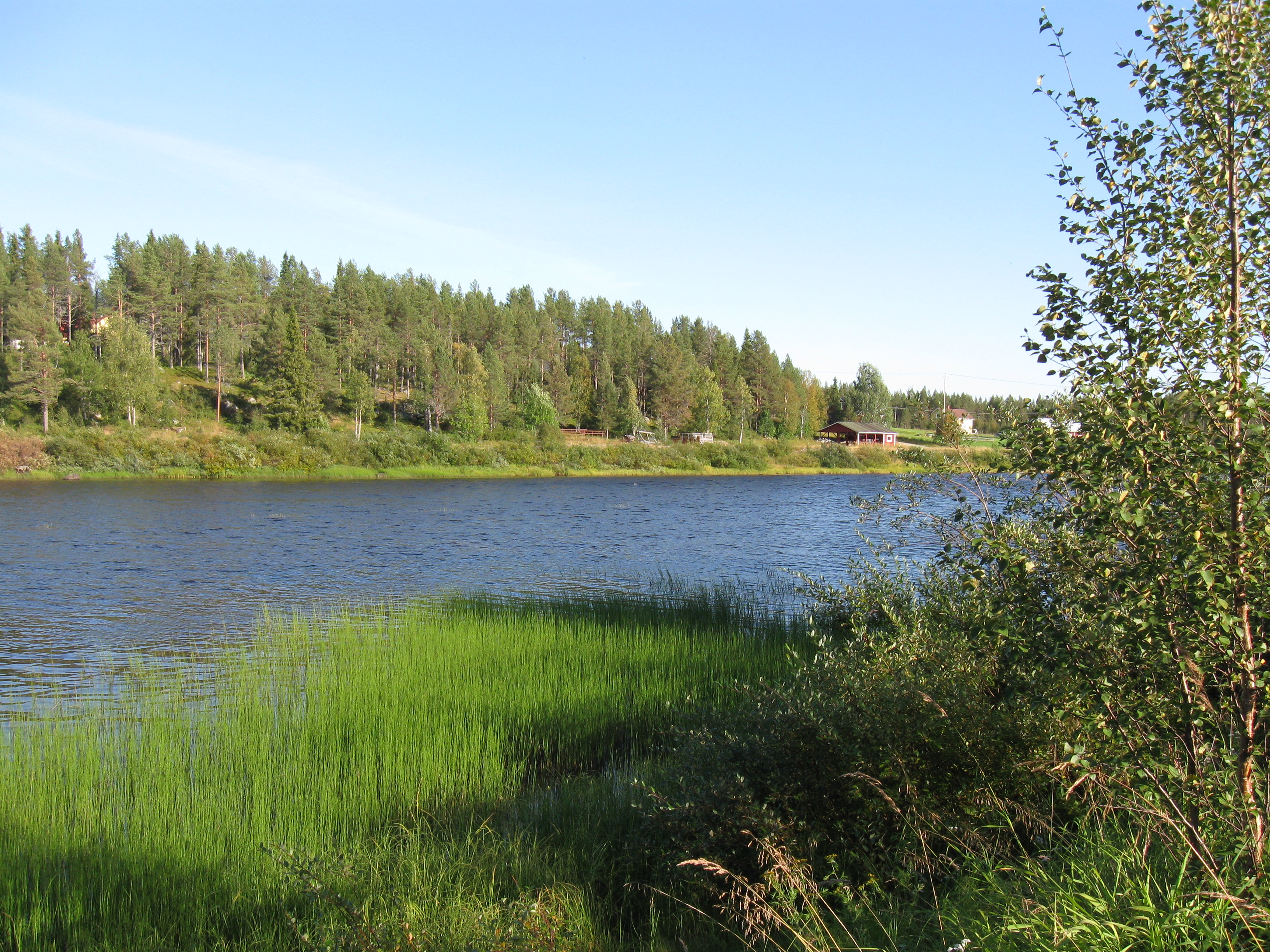 The village of Tanhua in Savukoski, Finland.